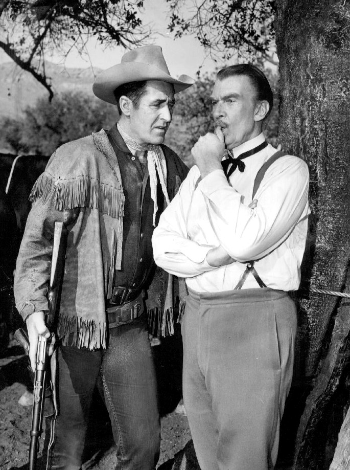 Photo of Sheb Wooley and guest star Walter Pidgeon from the television program Rawhide.